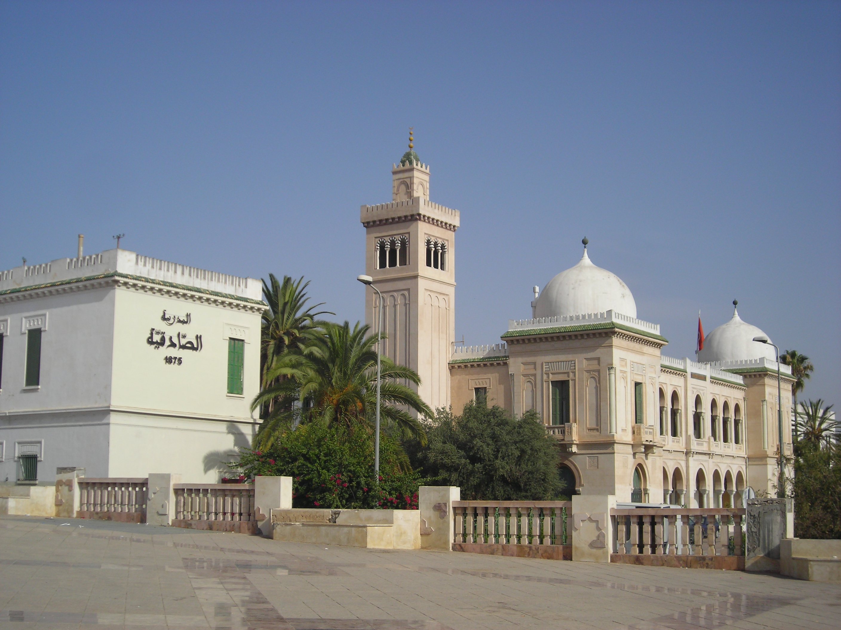 Sadiki College